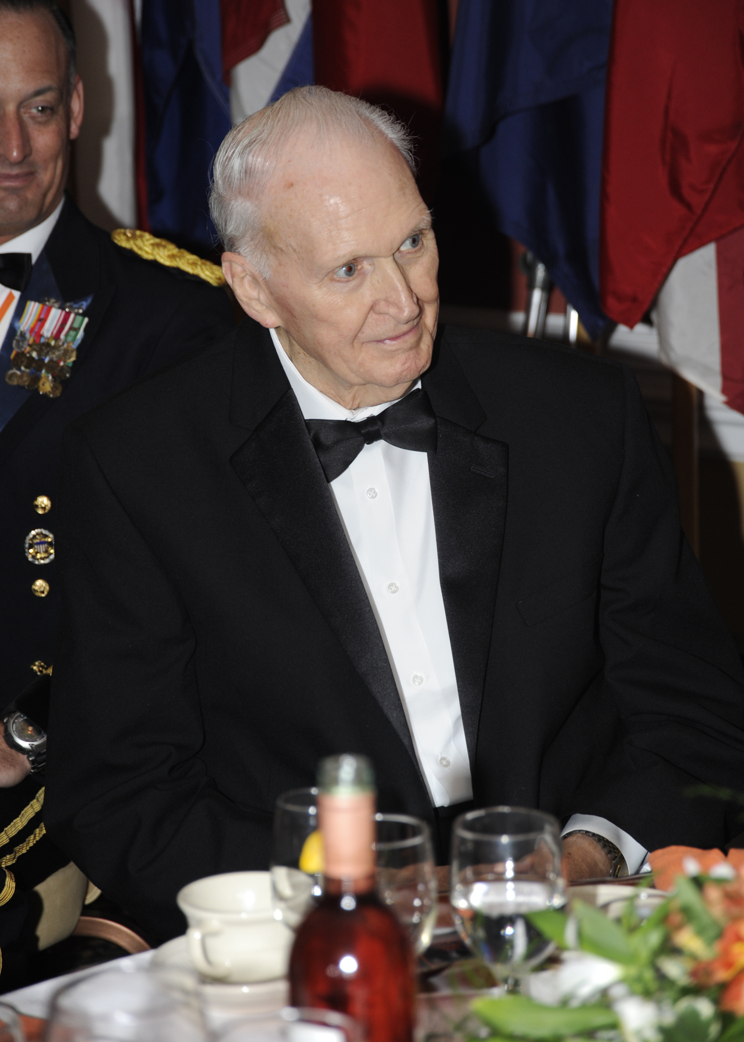 Former Major League Baseball Pitcher Leland "Lou" Brissie, is honored, during the 149th Annual Regimental Signal Ball, at the Fort Gordon Club, in Fort Gordon, Ga., June 26, 2009. The theme for the ball was "2009 Celebrating the Year of the Non-Commissioned Officer - "Pride in Service."